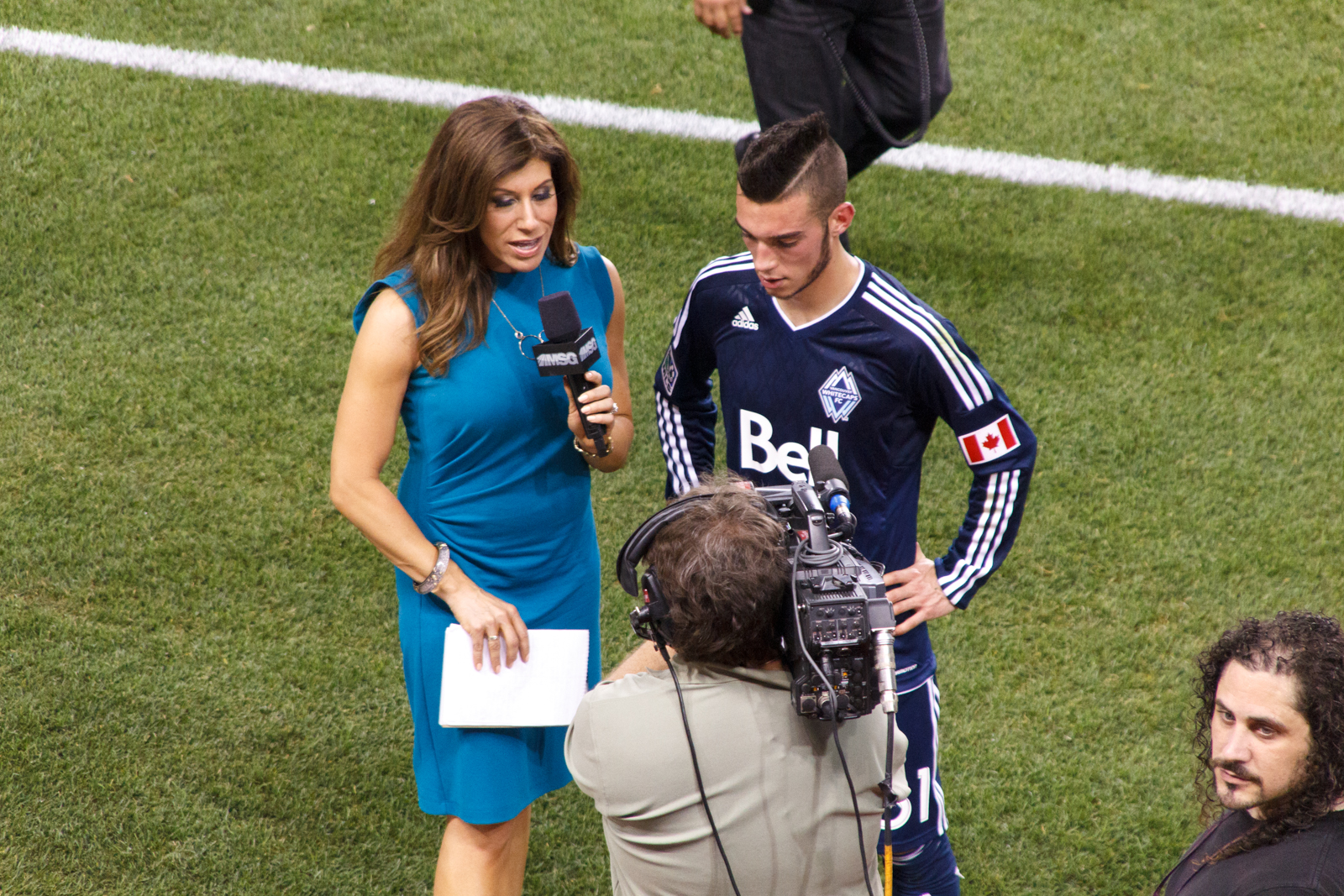 Tina Cervasio post game interview with Russell Teibert